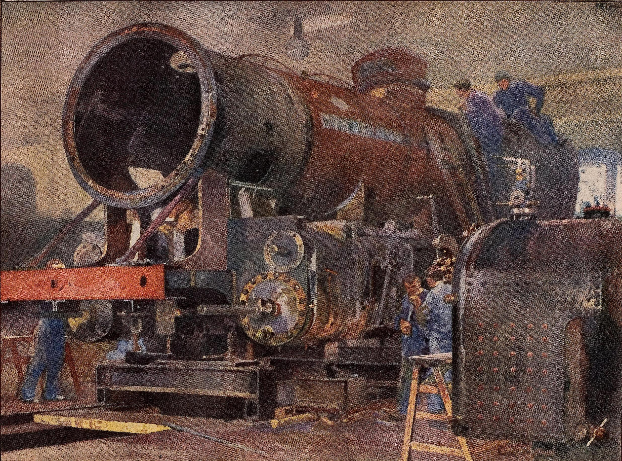 Heinrich Kley's painting of the J.A. Maffei locomotive works in Munich was featured in the Jugend magazine, issue 25, 1911, which had a theme on "Machines and Munich".